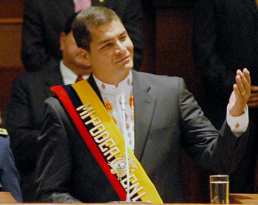 Rafael Correa during his inaugural speech as president of Ecuador